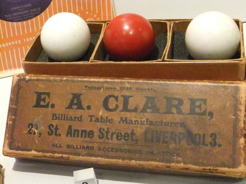 Set of billiard balls, Museum of Liverpool, England.